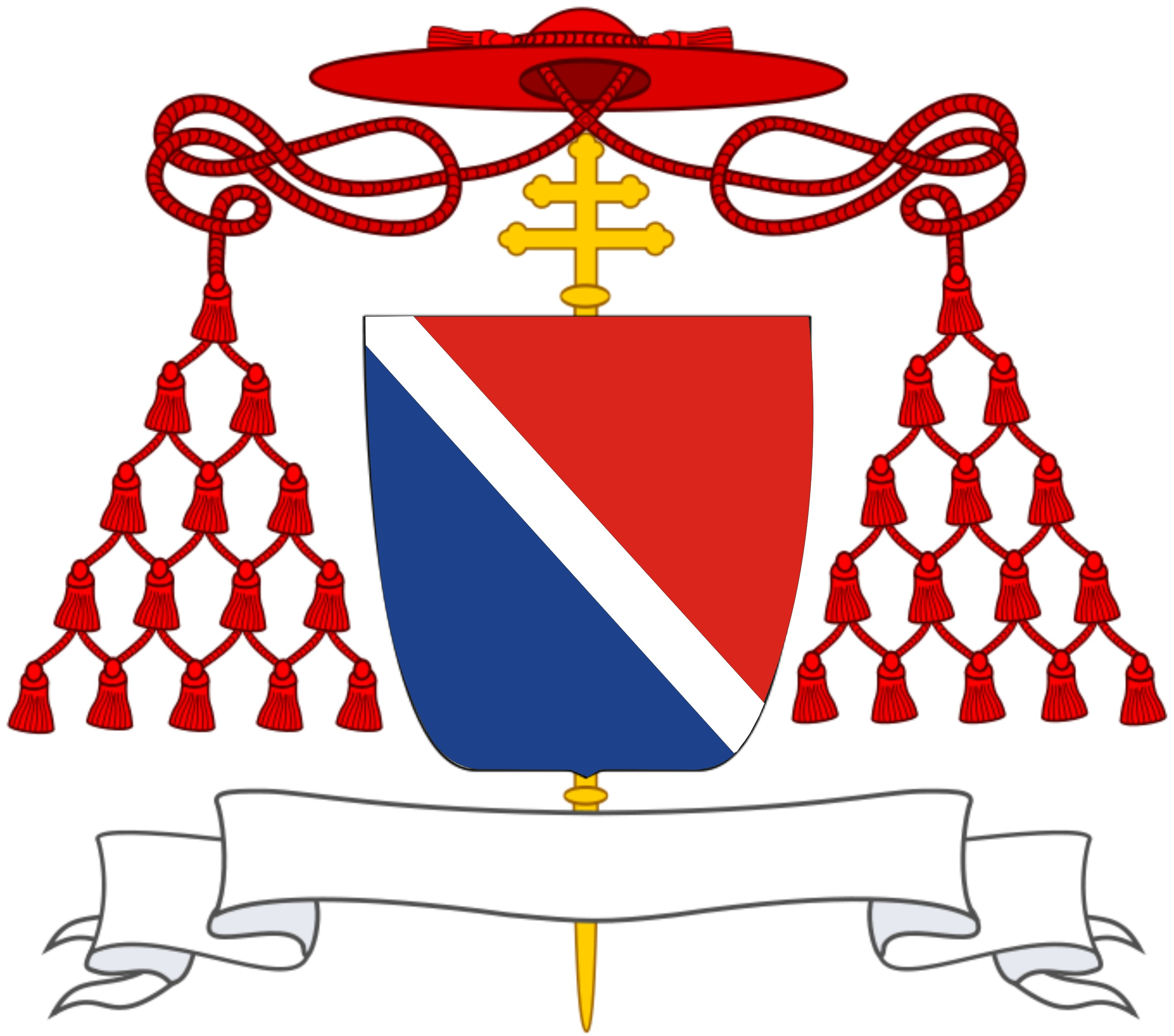 Coat of arms of Francesco del Giudice